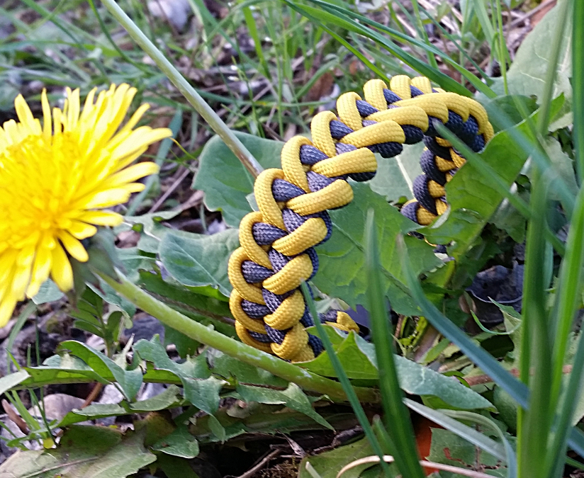 Survival bracelet with tying "Shark Jaw Bone"